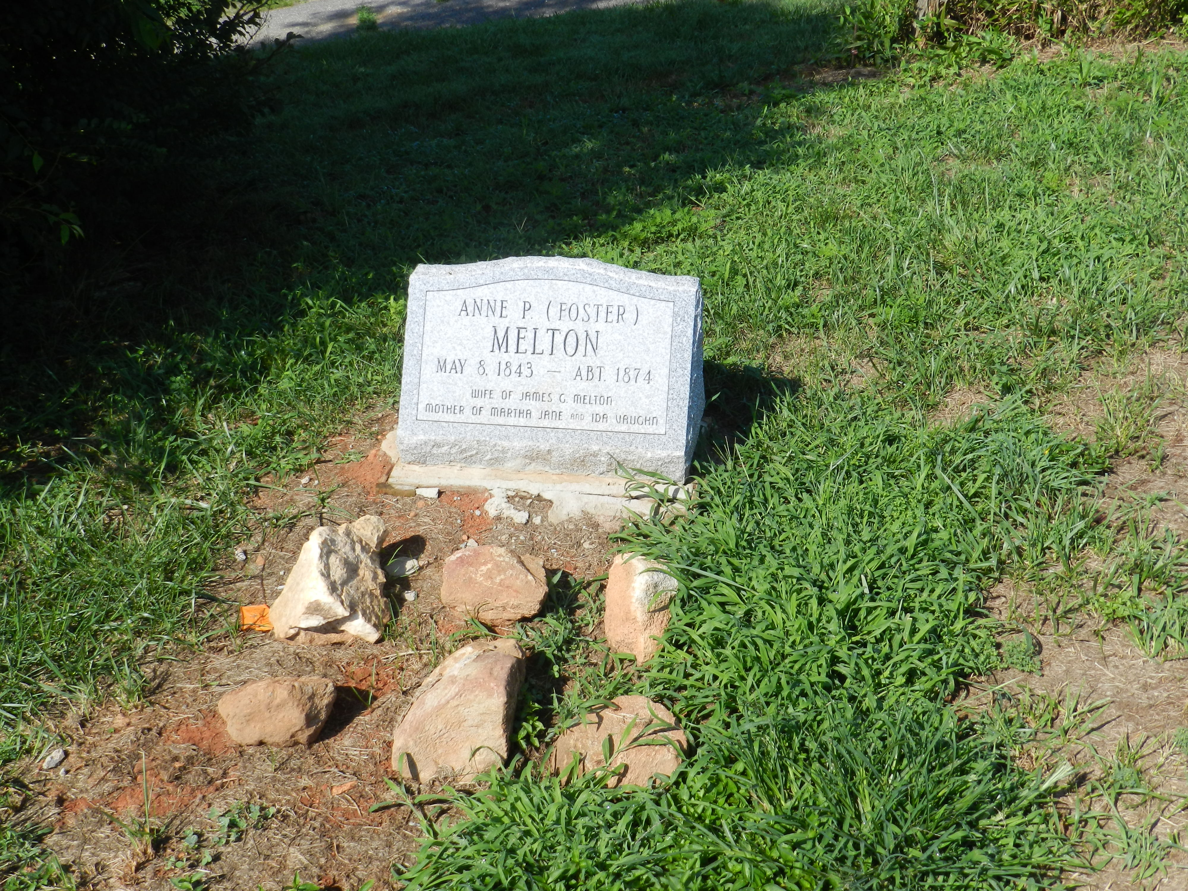 Gravesite of Ann Melton. She was §the other woman" in the famous Tom Doole case.